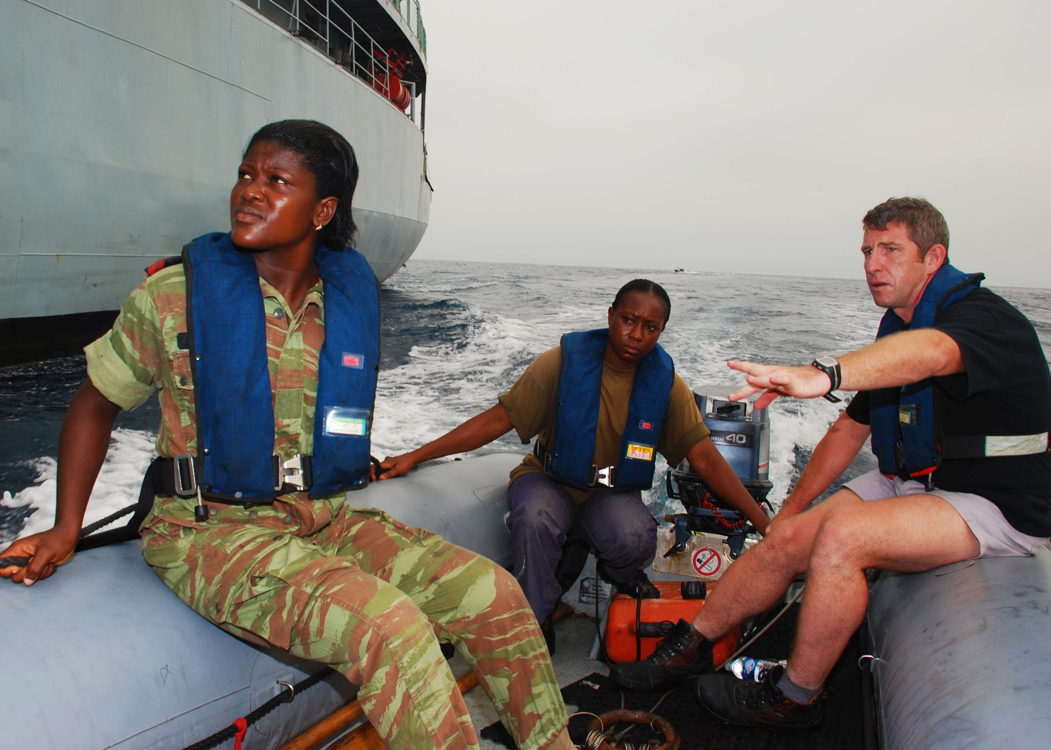 GULF OF GUINEA (March 20, 2010) Belgian navy Cpl. Eddy Destaelen, right, teaches Benin navy Quartermasters Seaman Chimene Djimahloue and Seaman Ahyi Ariane how to navigate a zodiac boat during a man overboard drill with the Belgian navy command and logistical support ship BNS Godetia (A 960) as part of the European-led portion of Africa Partnership Station West. Africa Partnership Station, an international initiative developed by U.S. Naval Forces Europe and U.S. Naval Forces Africa to improve maritime safety and security in West and Central Africa. (U.S. Navy photo by Mass Communication Specialist 1st Class Gary Keen/Released)